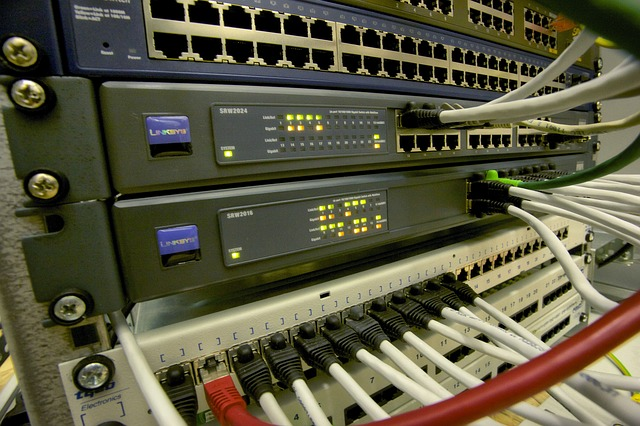 Cableado de un proveedor de servicios de Internet.